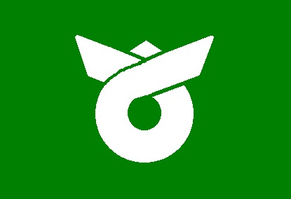 Flag of Okura Yamagata